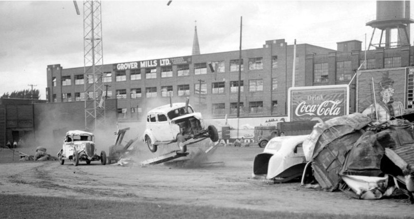 Cars are catapulted at a rodeo presented to Delorimier Stadium in Montreal. We notice the Grover Mills Ltd. manufacture Knit to Fit in the background.